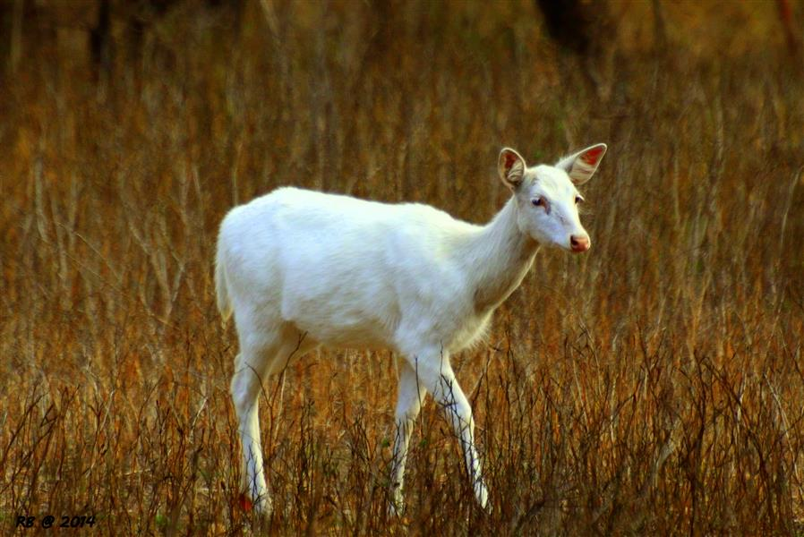 Albino Chital, Photographed at Ranthambore National park, India